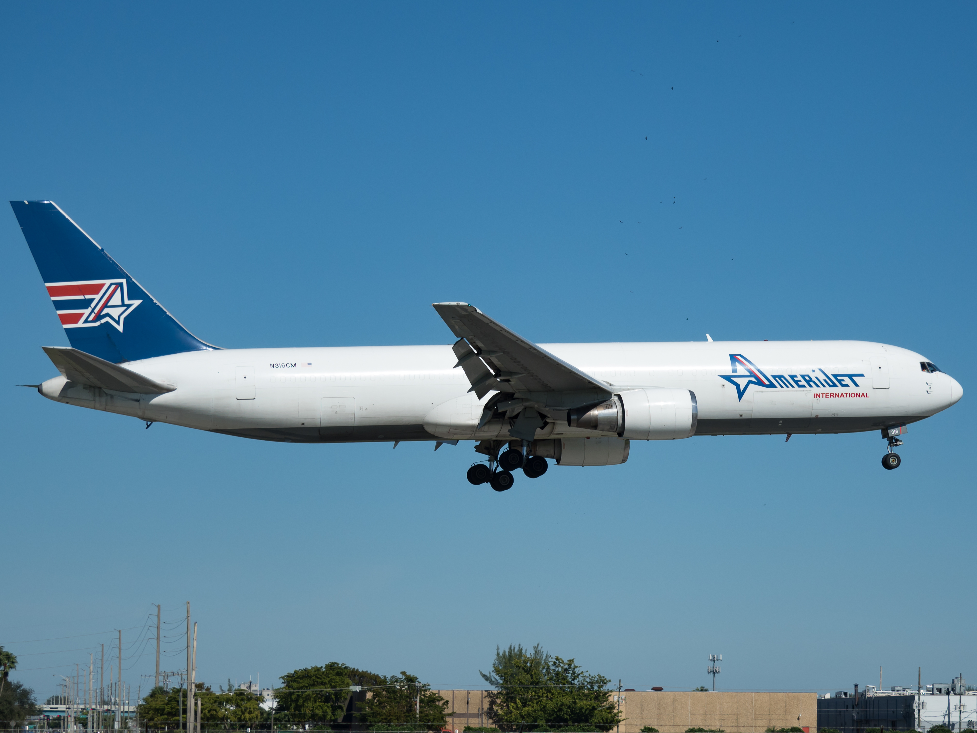 Amerijet International Boeing 767 at Miami International Airport